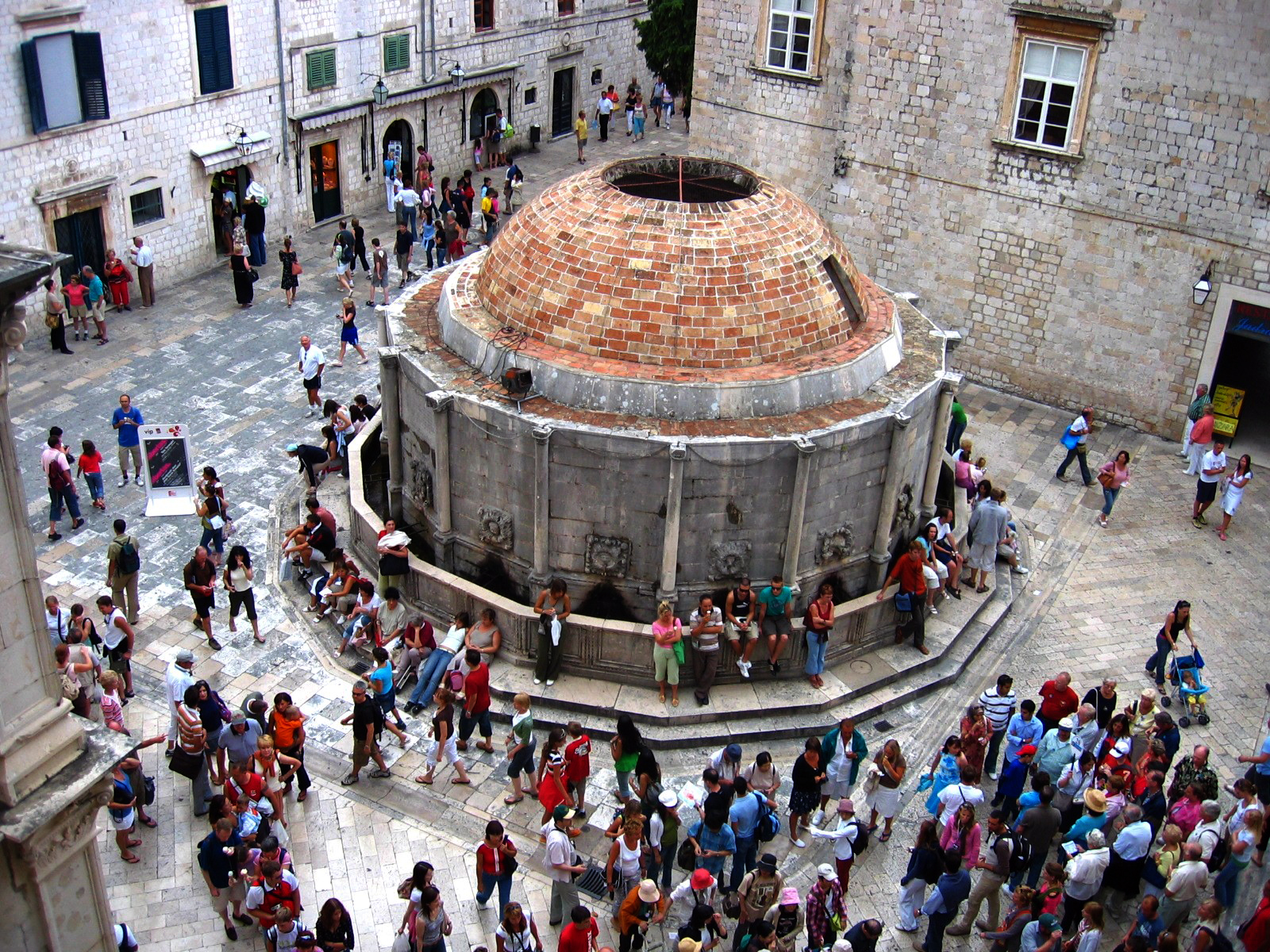 Onofrio's Fountain near Pile gate, Dubrovnik, Croatia